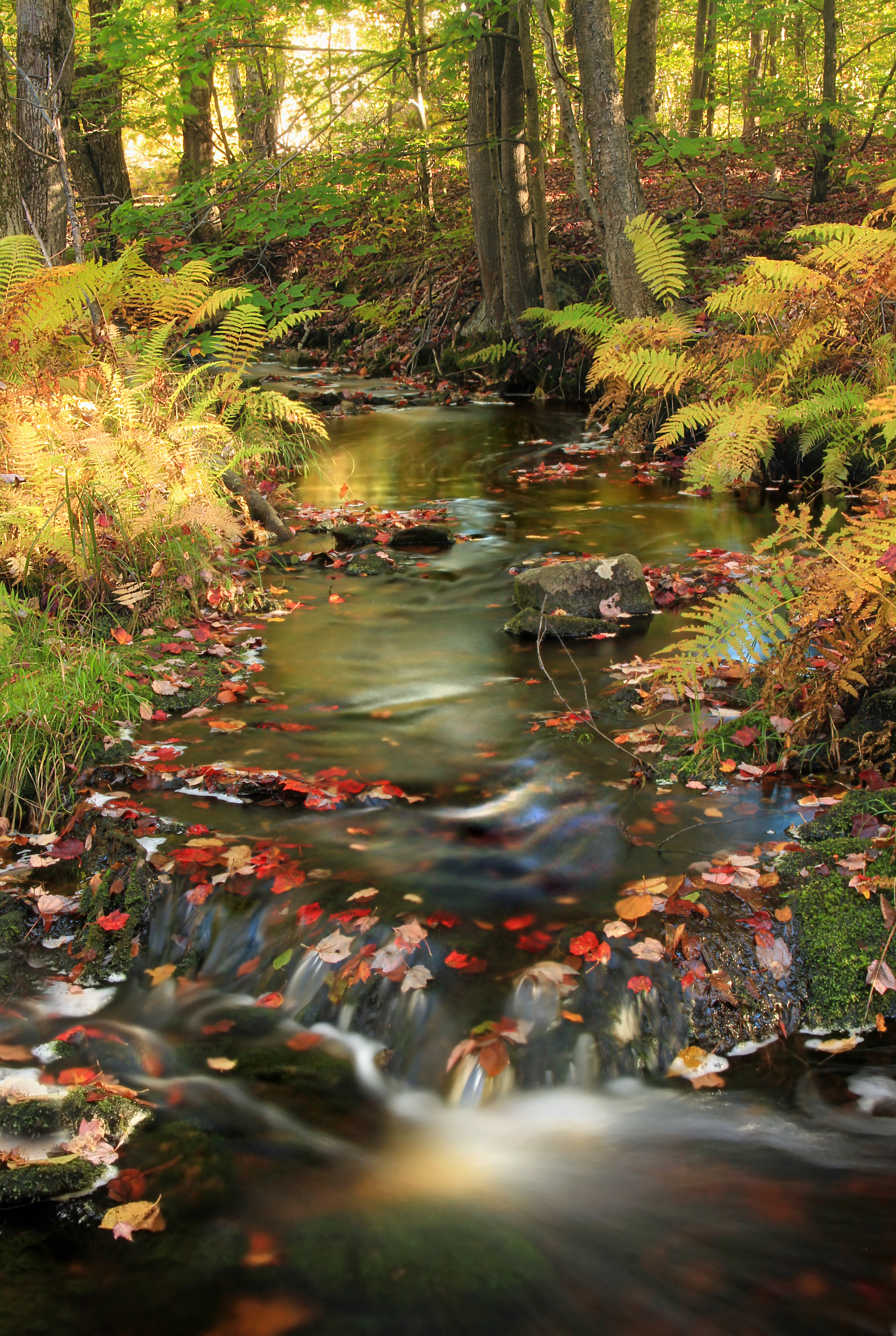 State Game Land 127, Monroe County. Fritz Run is a small, tannin-rich stream that drains several large wetlands before emptying into the Lehigh River.